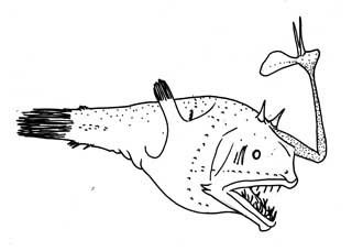 Drawing of the dreamer, Danaphryne nigrifilis